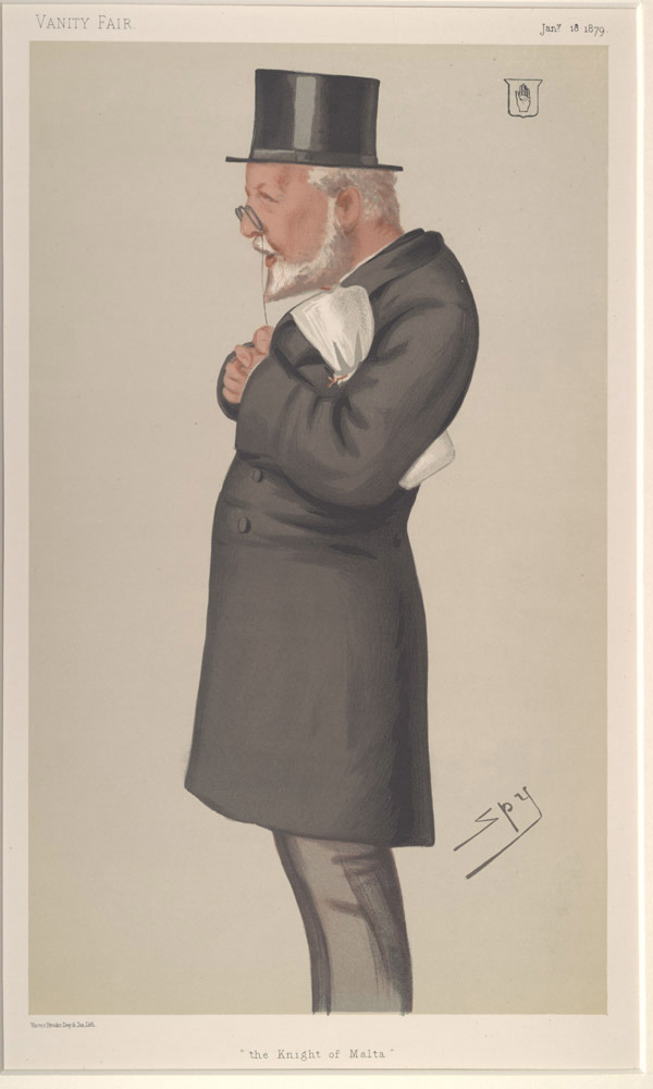 Statesmen No.293: Caricature of Sir G Bowyer Bt MP. Caption reads: "the Knight of Malta"